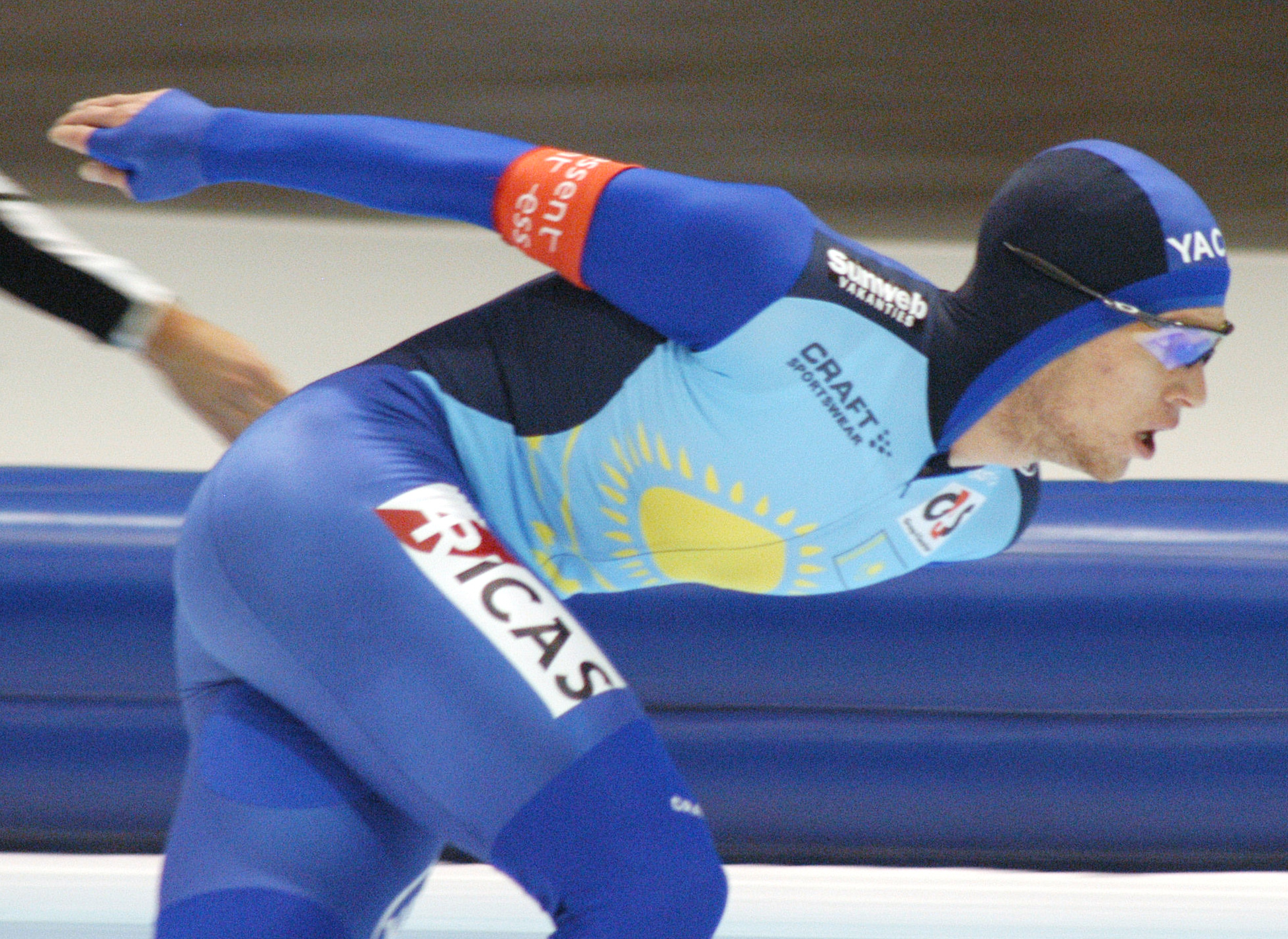 Dmitri Babenko (Дмитрий Бабенко, KAZ) at a World Cup Speed Skating in Heerenveen, the Netherlands.